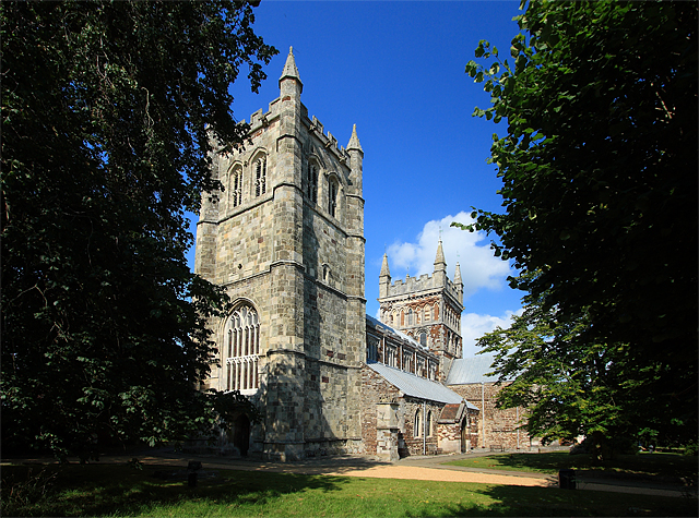 Wimborne Minster - Church of St Cuthburga The Minster has Saxon origins, but what we see today was built by the Normans between 1120 and 1180 with late medieval rebuilding and additions. There was considerable restoration in the C19.